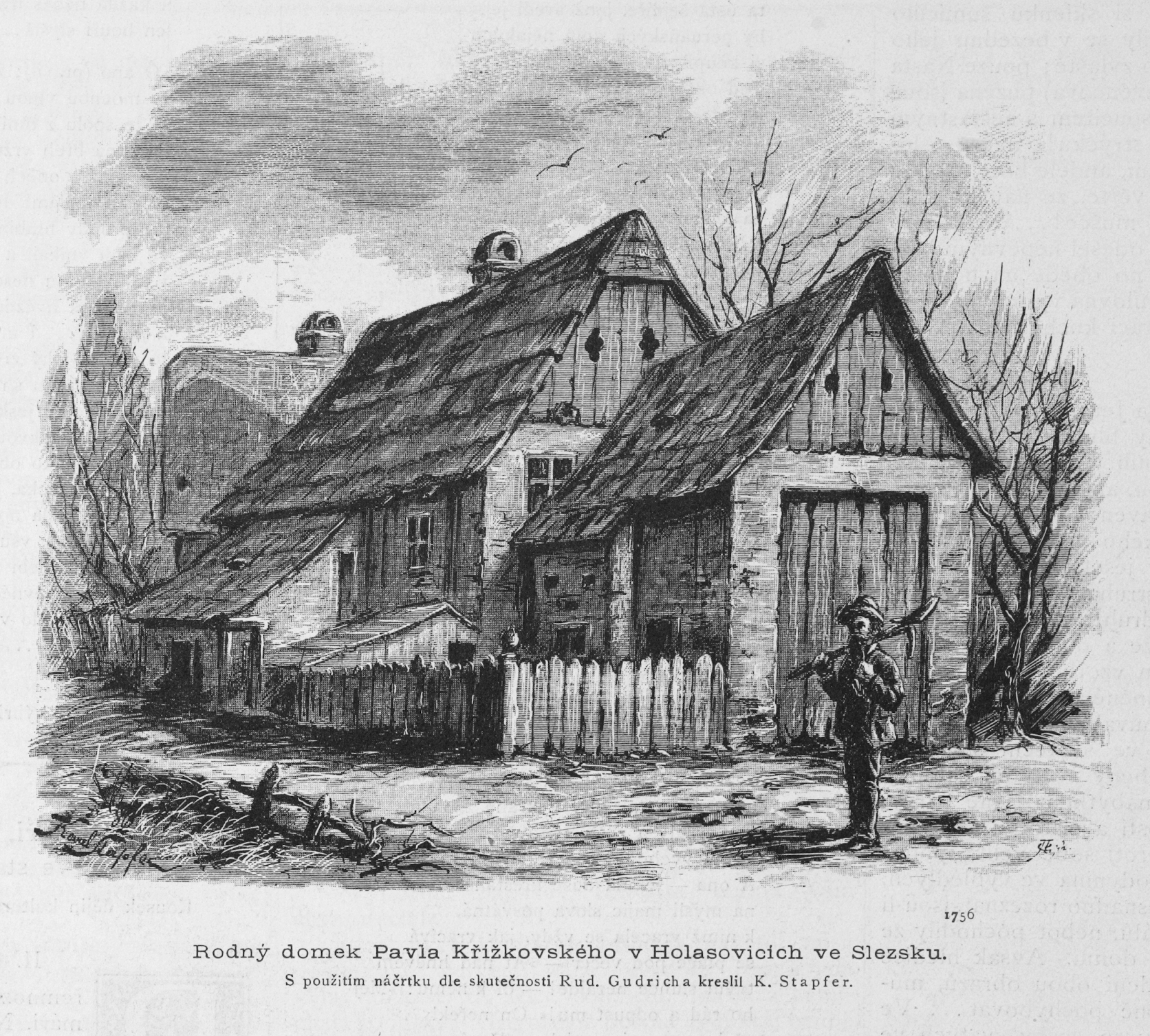 House in Holasovice (present-day Czech Republic) where Czech composer Pavel Křížkovský (1820-1885) was born.